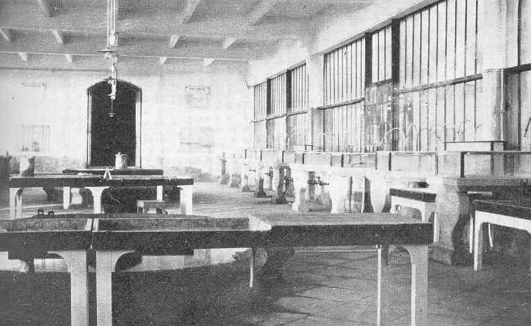 Biological Station at Roscoff : Interior of the Aquarium Room, Showing Work Tables, Floor Tank, and Aquaria Subject: Station Biologique de Roscoff, Aquariums--France Geographic Subject: France--Roscoff Tag: Research Institutions